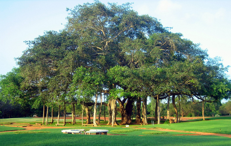 It's the banyan tree! one of the last surviving inhabitants of Auroville (iirc)